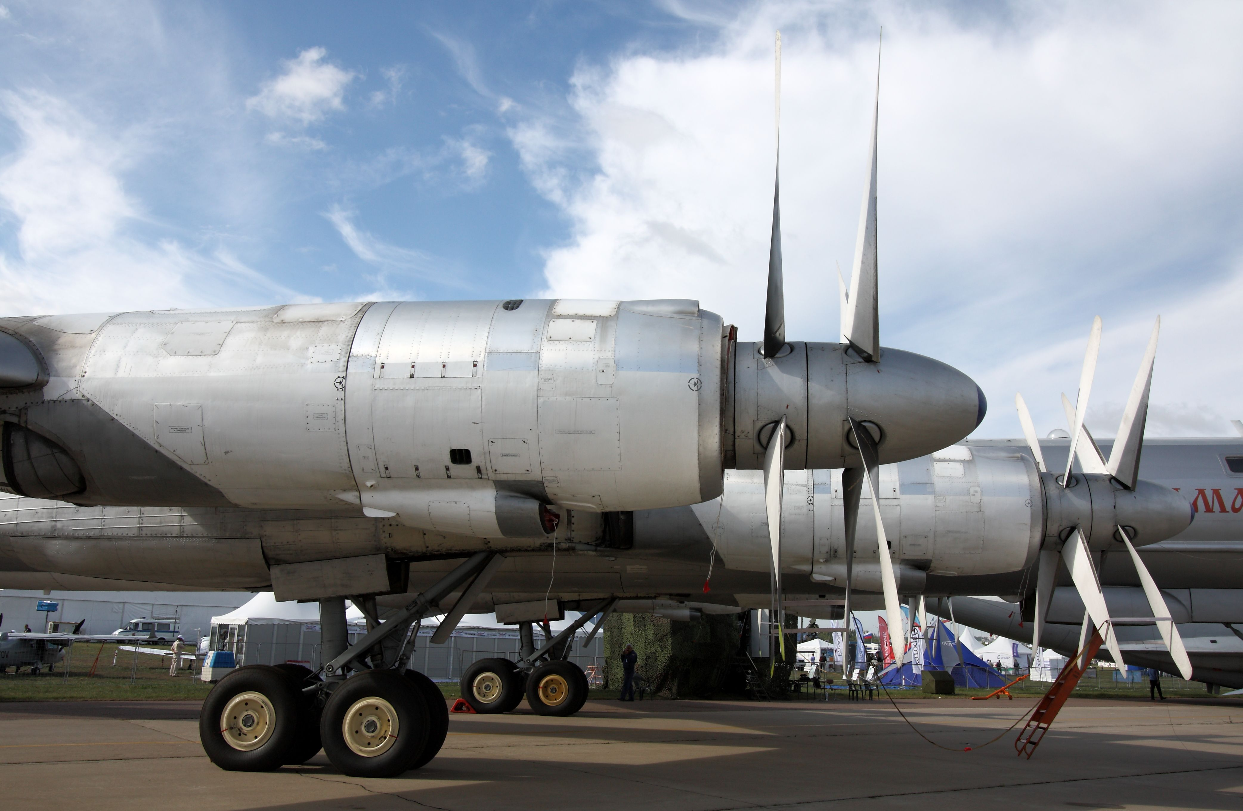 Turbo-propeller strategic bomber-rocket carrier Tupolev Tu-95MS Bear (The international aerospace salon MAKS-2011)